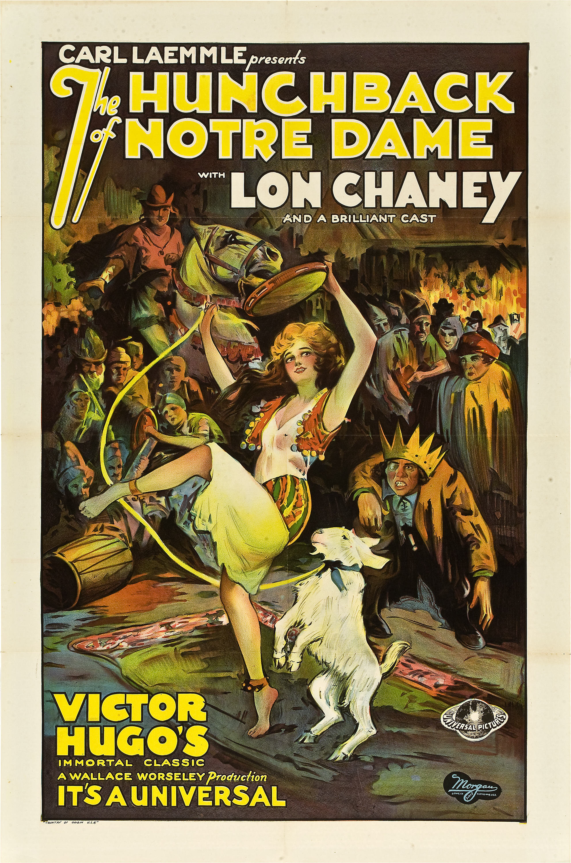 Poster for the film The Hunchback of Notre Dame (1923), no copyright tags pre 1977, listed as "country of origin usa" in the bottom right too.